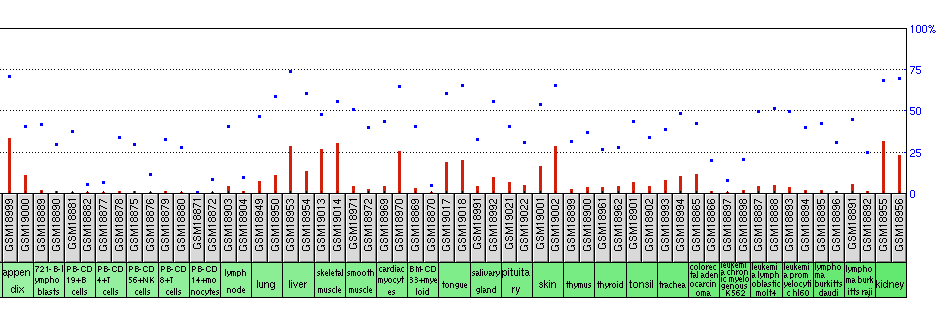 FAM149A Expression 3